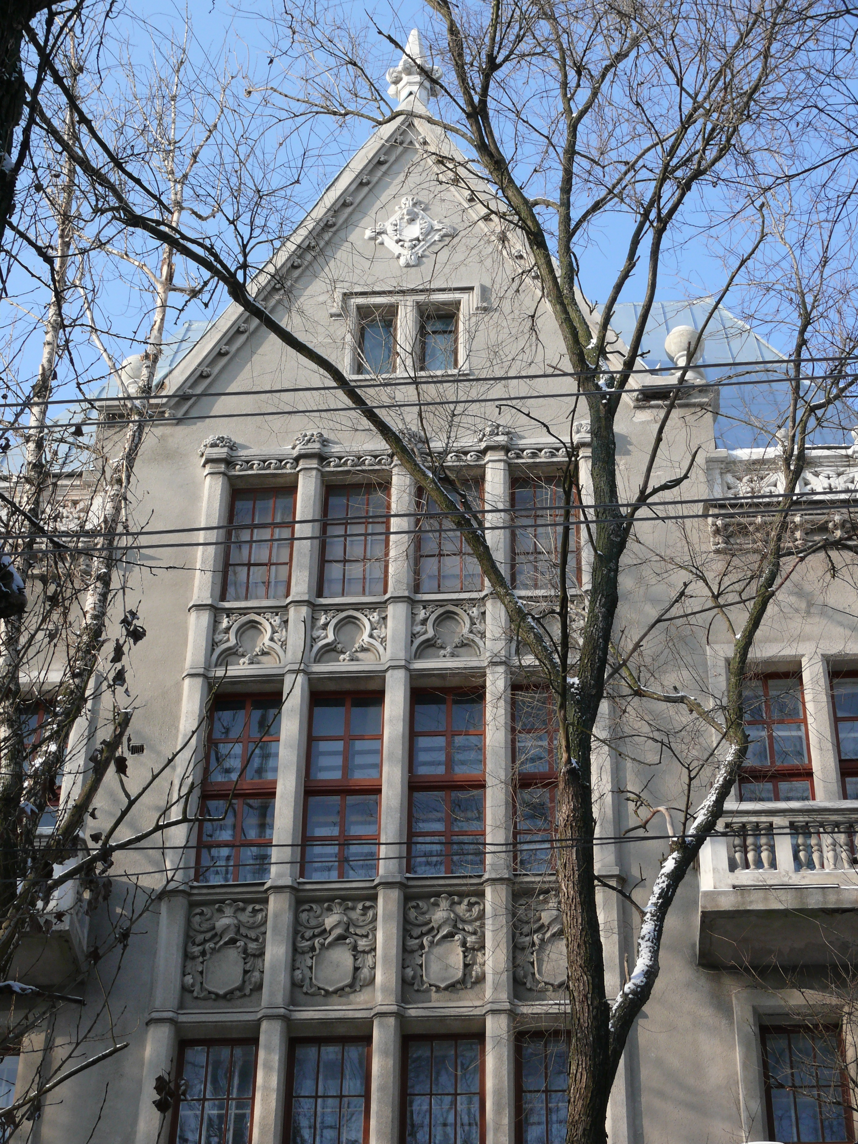 House with Chimeras Kharkov (1912-1914)